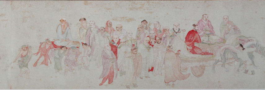 The Five Hundred arhats, ink and colour on paper, 37,7x 23.45m, Wu Bin, Cleveland Museum of Art, USA